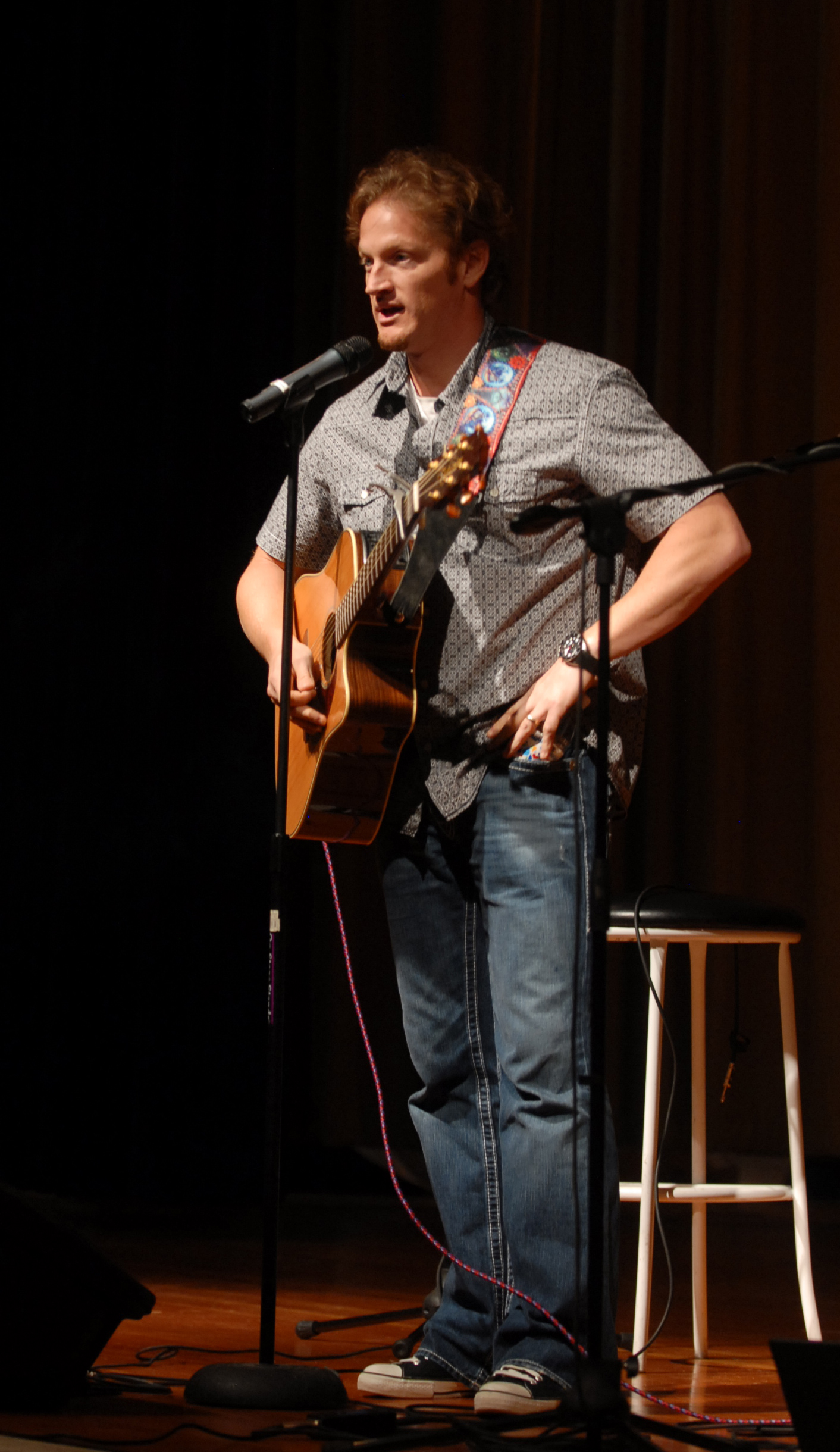 Original Description: Tim Hawkins, standup comedian, performed in support of the military and their families at the Luke Air Force Base Theatre on October 15, 2009. The Luke Air Force Base Chapel and Club Communities held the event with hosts Tim & Willy from KMLE country music station. (U.S. Air Force photo by Airman 1st Class Sandra Welch)